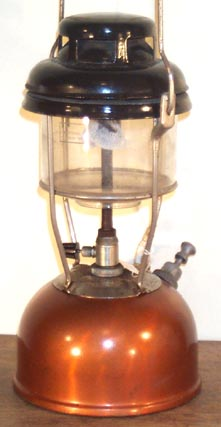 A lamp from my collection, photo taken by myself David Greenwood